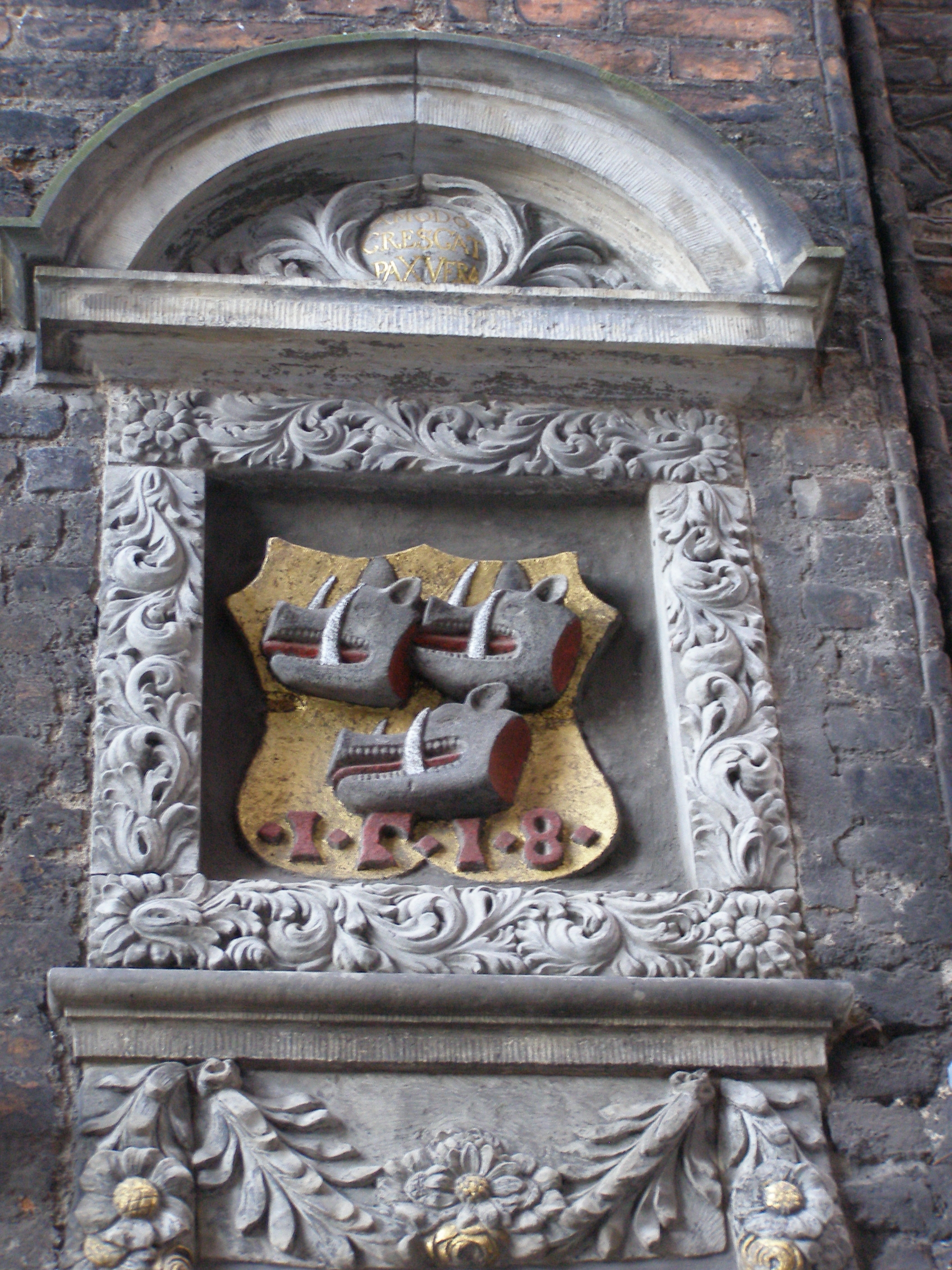 Gdańsk - Ferber family coat of arms on the St. Mary's rectory portal